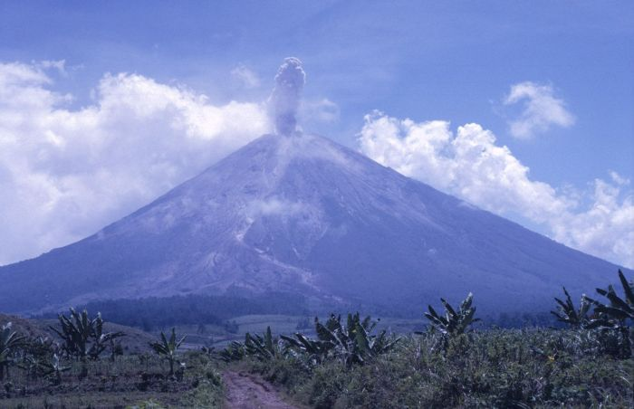 The Argopuro volcano